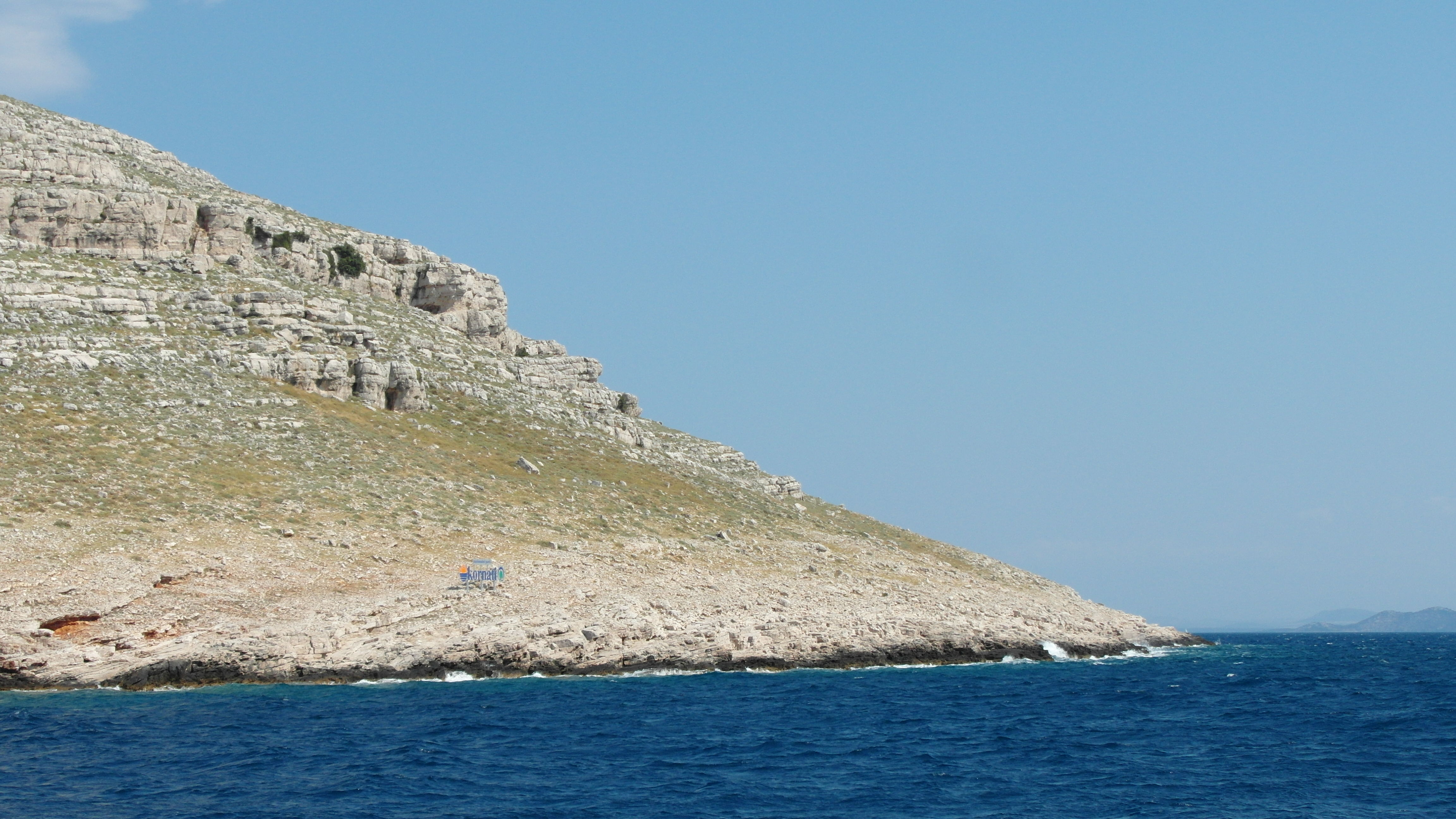 Cape Opat, the southeastern end of the island of Kornat, Croatia.